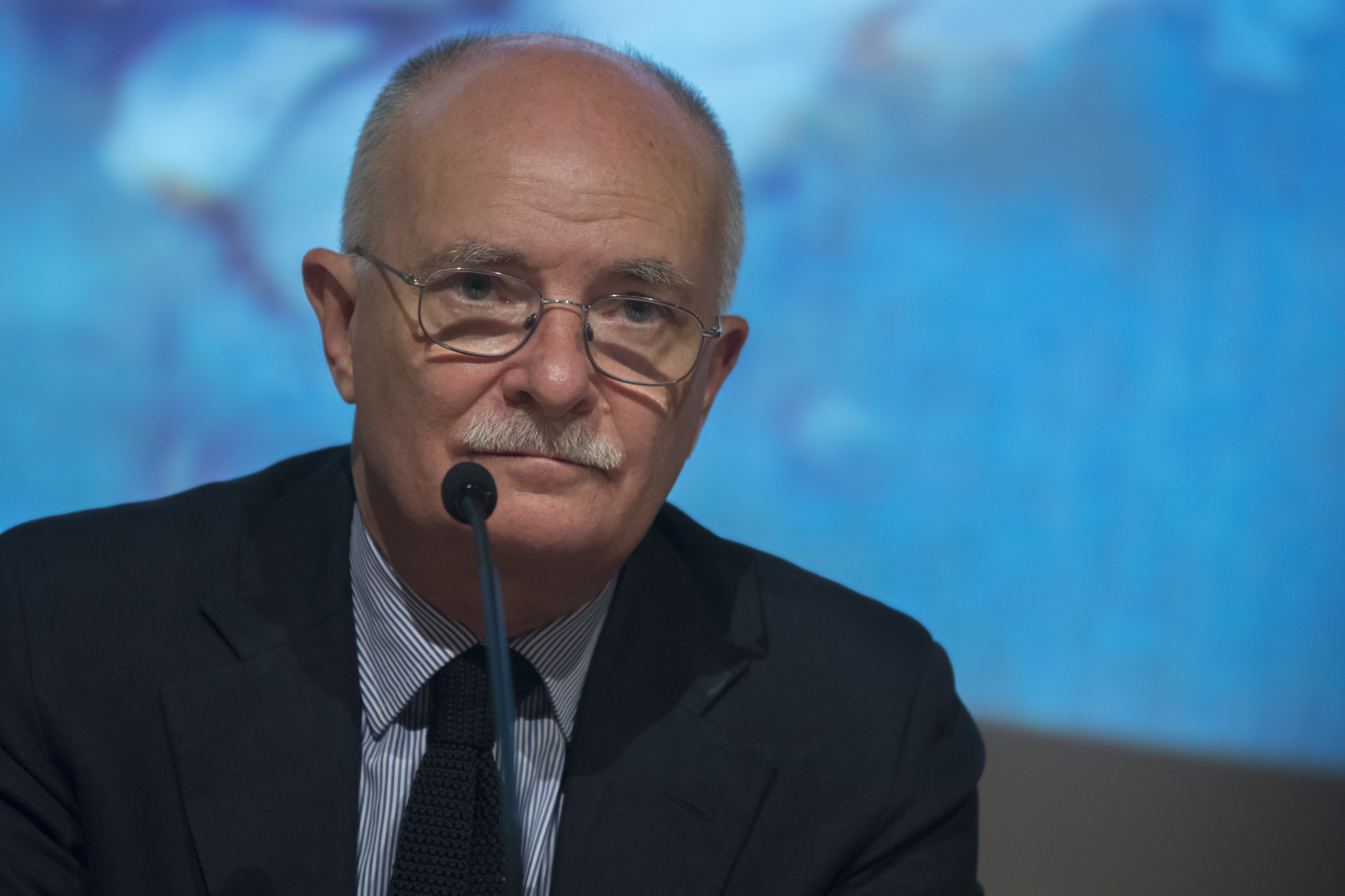 Walter Barberis at XXIX Salone Internazionale del Libro 2016.